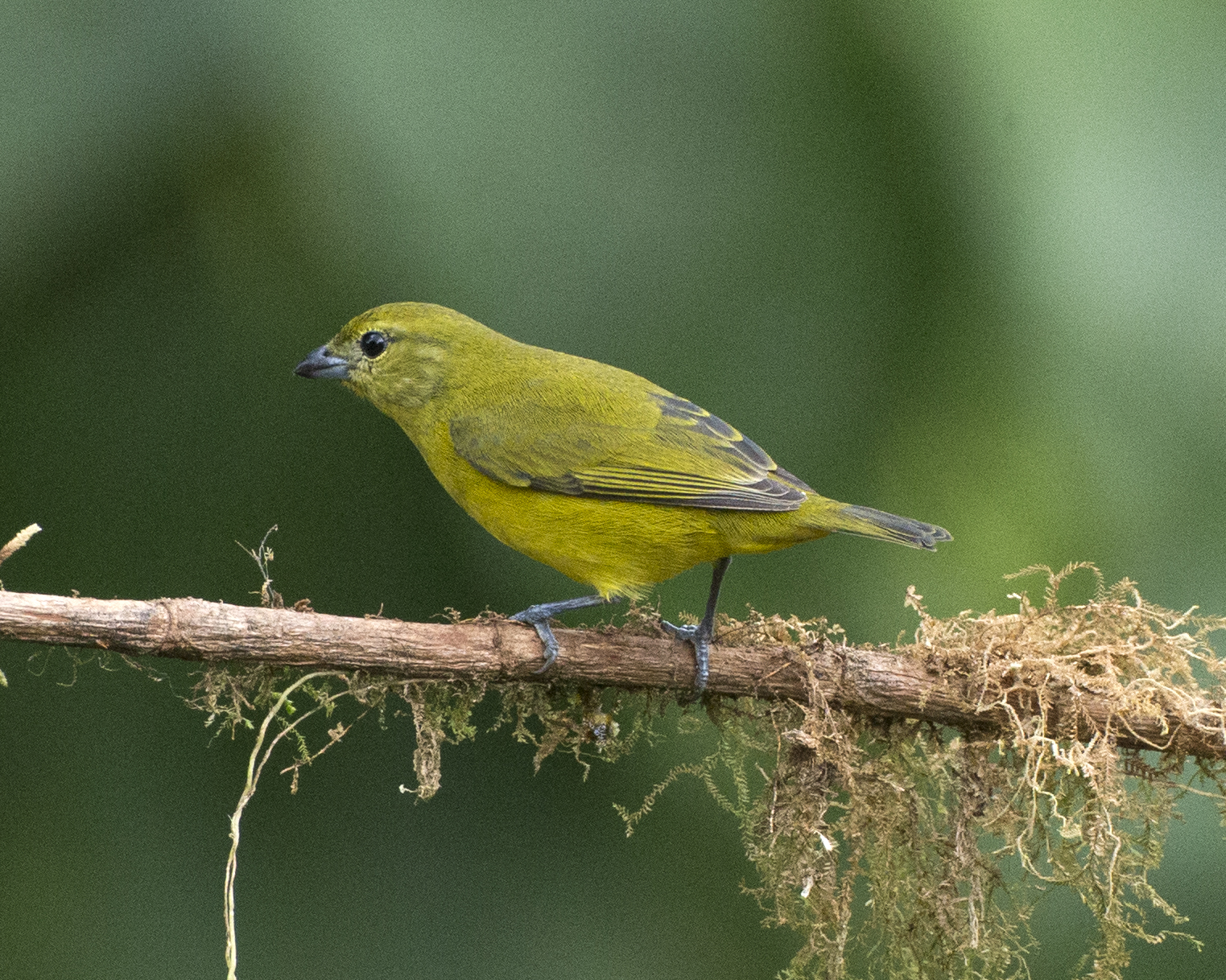 Thick-billed Euphonia Euphonia laniirostris Euphonia laniirostris hypoxantha Milpe, Ecuador 29th. July 2015 CF2P9386